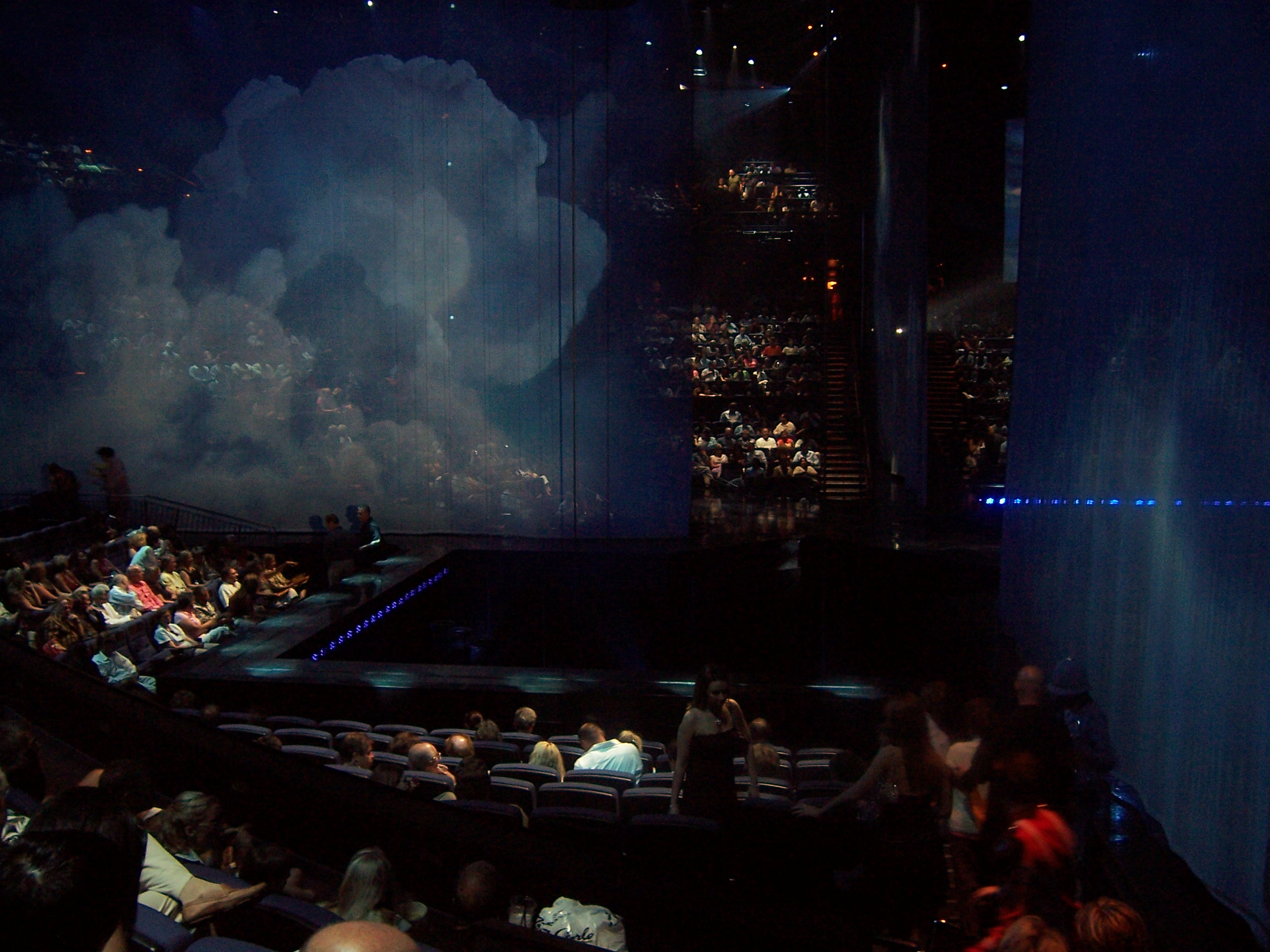 Part of the stage of Cirque du Soleil LOVE production before start of show.